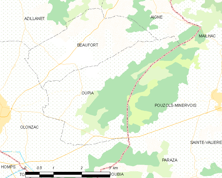 Map commune FR insee code 34190.png - Oupia